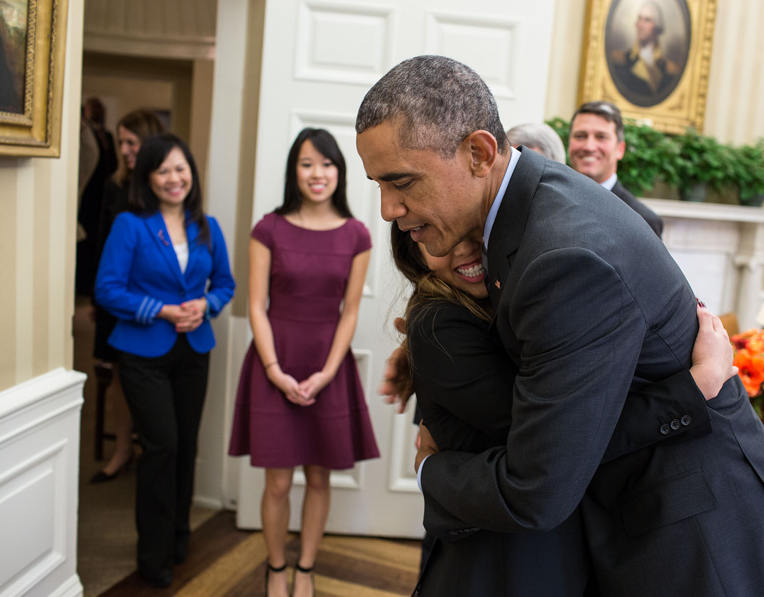 Oct. 24, 2014 "When Nina Pham walked into the Oval Office, the President gave her a big hug as her family and White House Dr. Ronny Jackson watched. Nina, a Dallas nurse diagnosed with Ebola after caring for an infected patient in Texas, was being treated at the National Institutes of Health in nearby Bethesda, Maryland, and the President invited her to the White House when she was released after being declared Ebola-free." (Official White House Photo by Pete Souza)